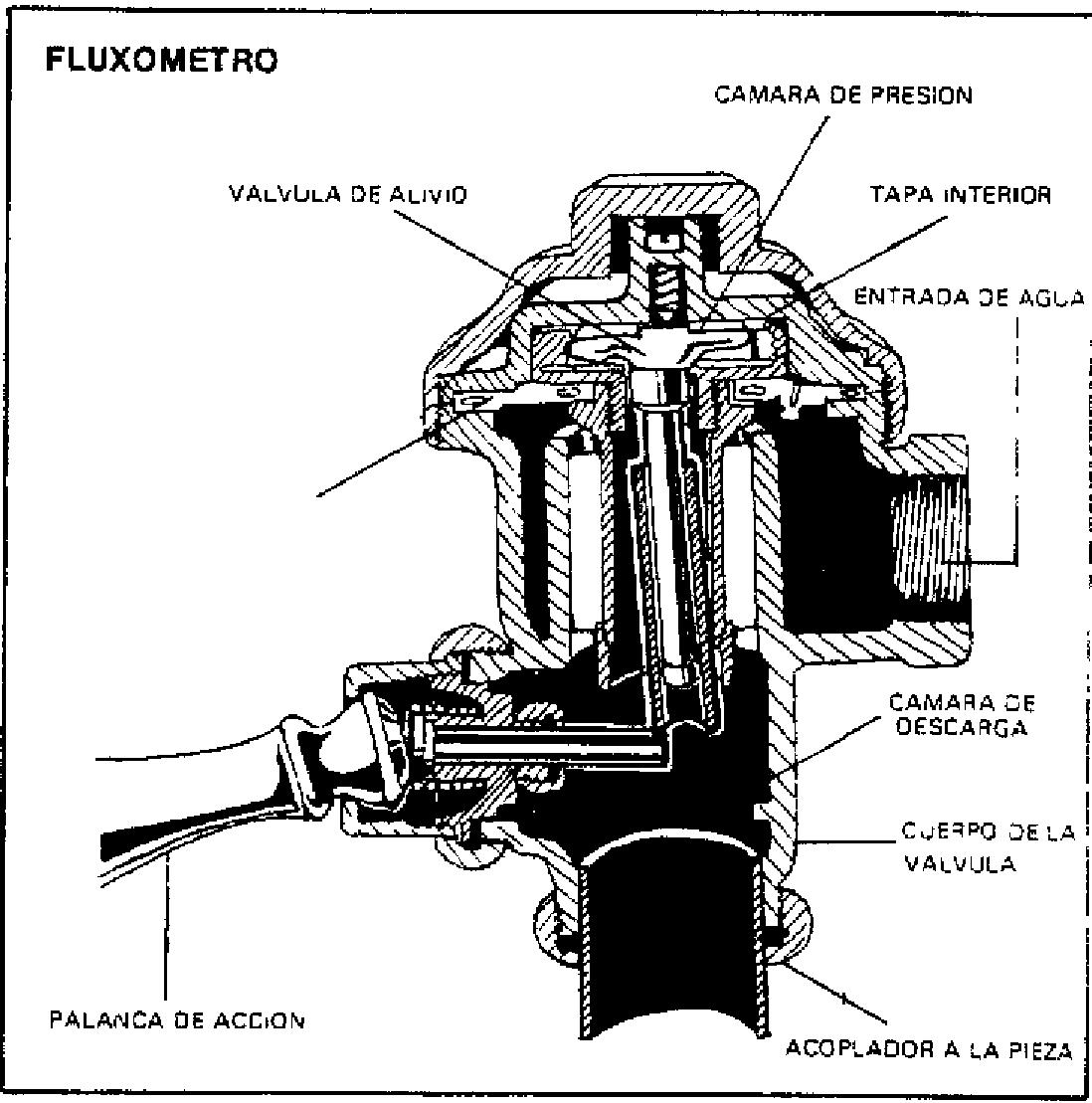 fluxómetro